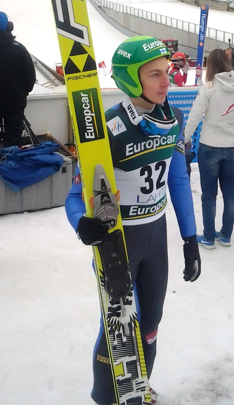 Finnish nordic combined skier Ilkka Herola at Lahti Ski Games 2014.